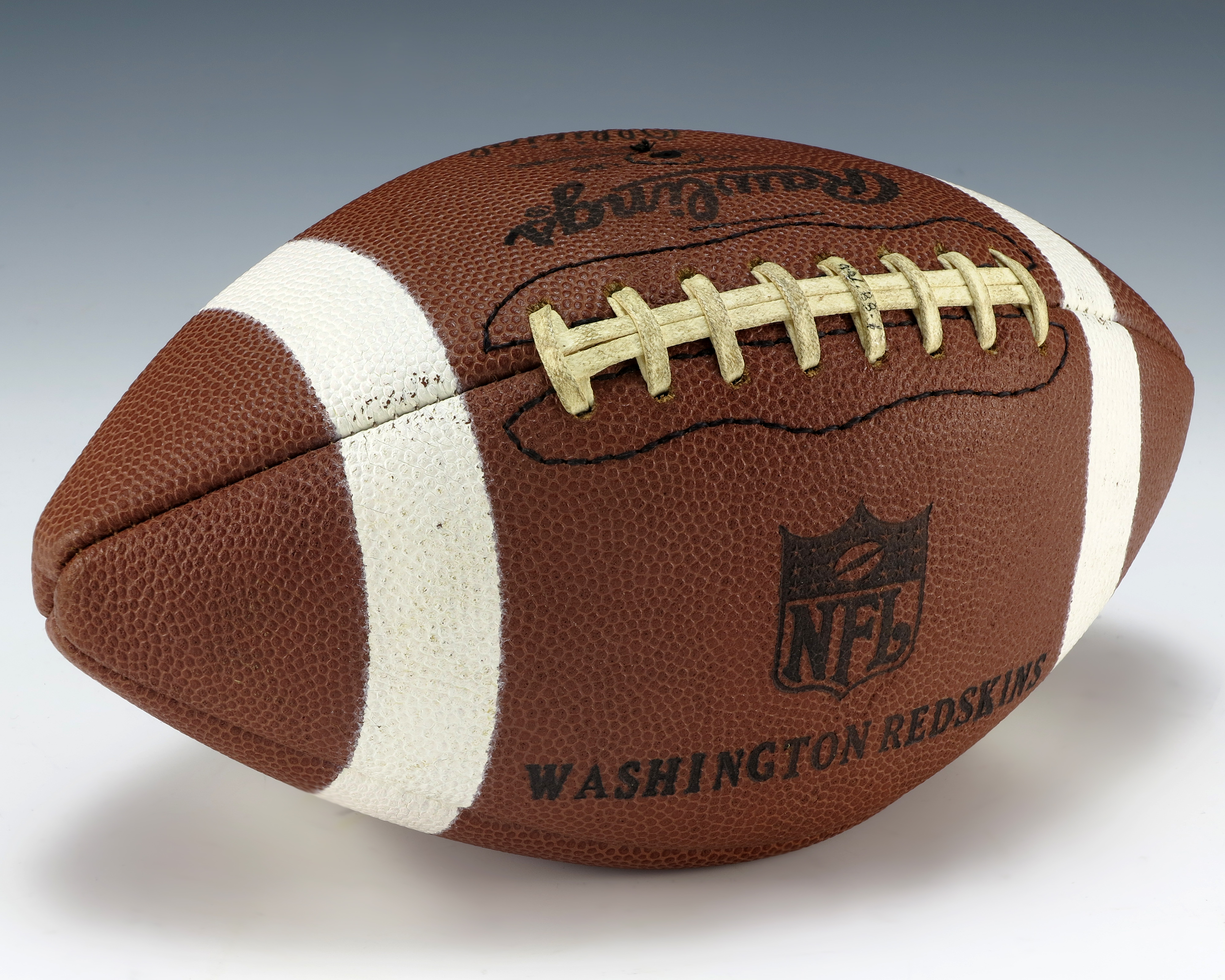 A Washington Redskins football that features the embossed National Football League (NFL) logo and “Washington Redskins.” The football is faintly inscribed on the football in black marker, and it reads “To dearest/ Betty/ Ford/ ??/ 4/8.” Was given to Betty Ford at the Hospital while she was recovering from breast cancer surgery.